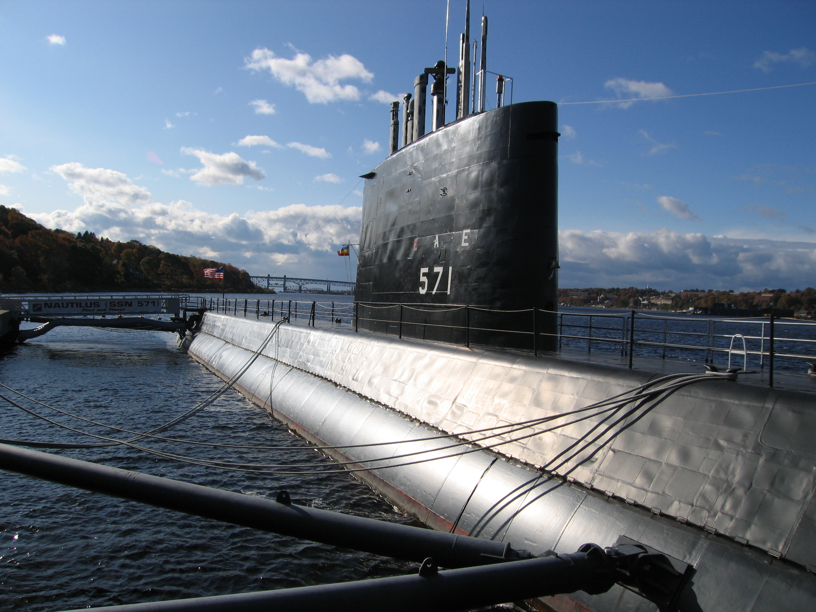 The USS Nautilus permanently docked at the US Submarine Force Museum and Library, Groton, CT